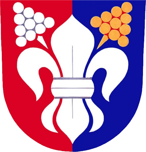 Emblem of municipality Prakšice (Czech Republic)